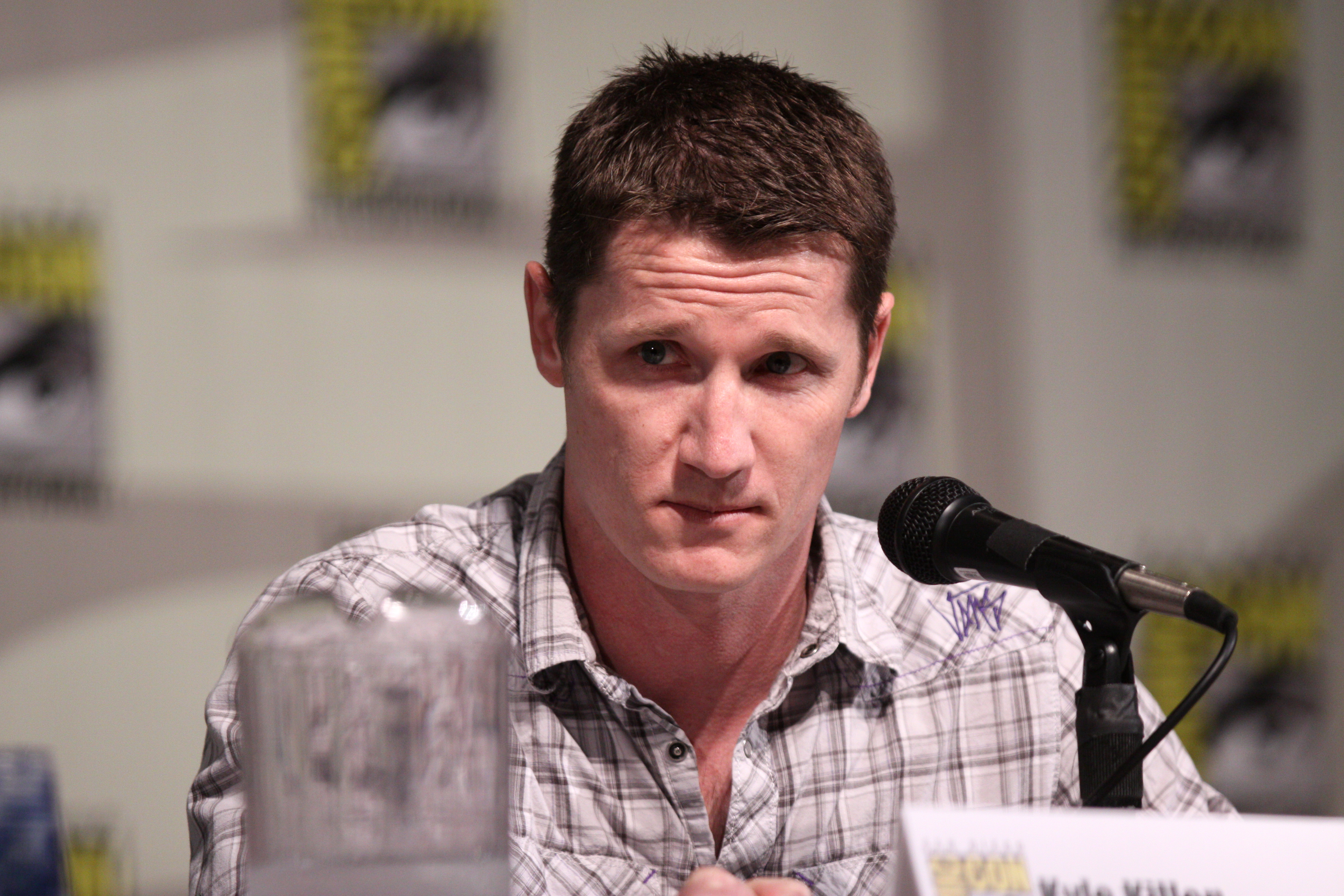 Screenwriter Kyle Killen at 2011 Comic-Con International